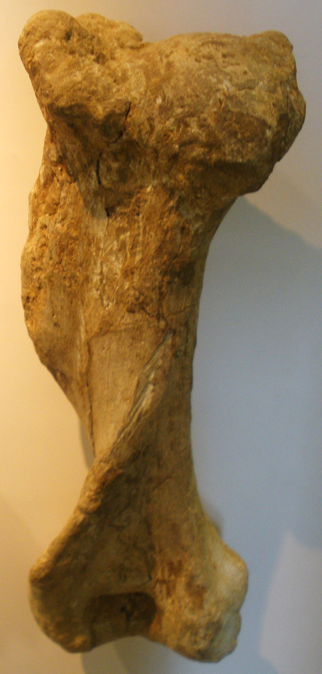 fossil stegodon humerus